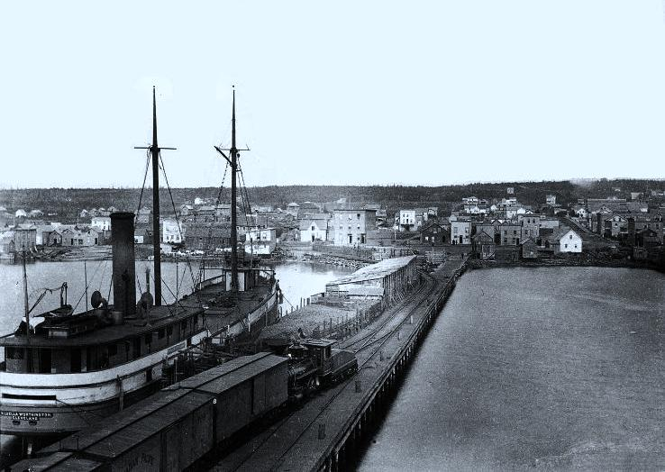 Photograph, Port Arthur, ON, 1884, William McFarlane Notman, Silver salts on film (safety) - Gelatin silver process - 20 x 25 cm